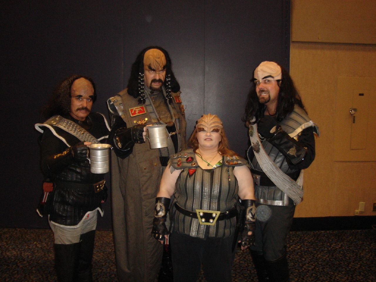 Fans dressed as Klingons in a Star Trek Convention.